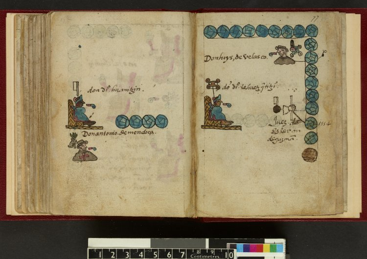 Muestra la ascension de Huantzin.